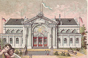 Ravensburg, Konzerthaus, built by Ferdinand Fellner (of Fellner & Helmer Architects, Vienna), before the 1899 extension.